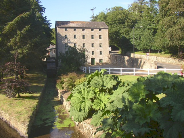 Mill at Foulksmill, Co. Wexford. Five stories high, this seems to be a typical Irish watermill. It was a corn mill.